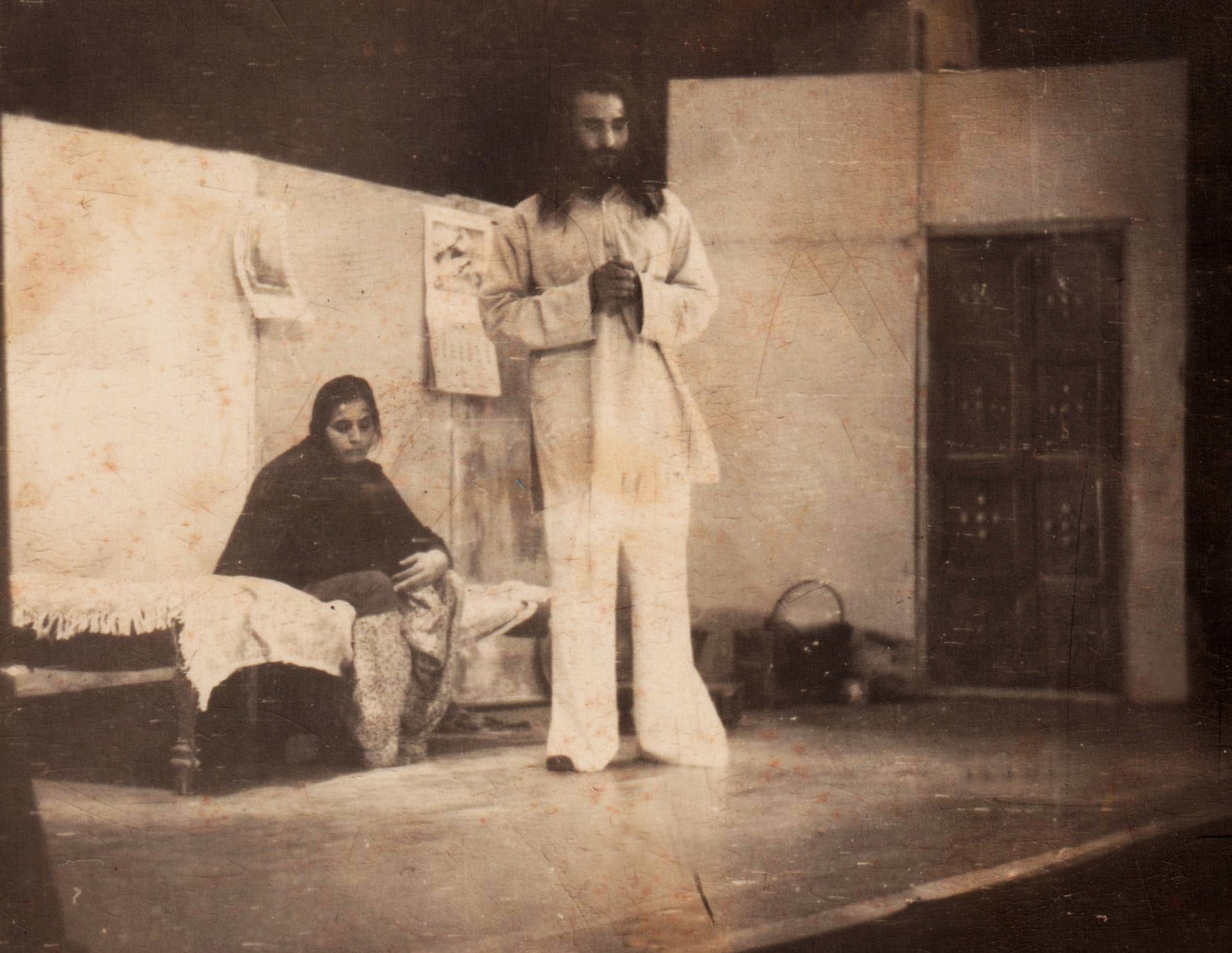 Dr. Harcharan and his wife Dharam Kaur on stage for the play Anjorh in 1949. Dharam Kaur was the first lady on stage in Punjabi Theatre